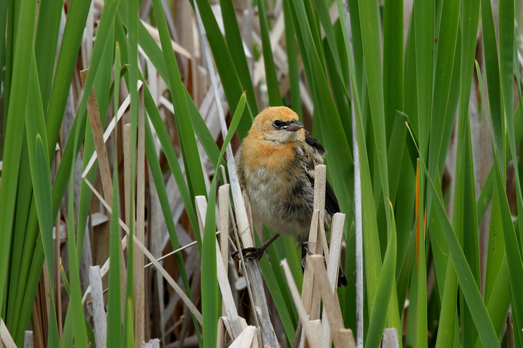 A juvenile Yellow-headed Blackbird at 100 Mile House, British Columbia, Canada. This young bird was still dependant on it's parent bringing food.